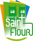 The logo of Saint-Flour diocese in France.